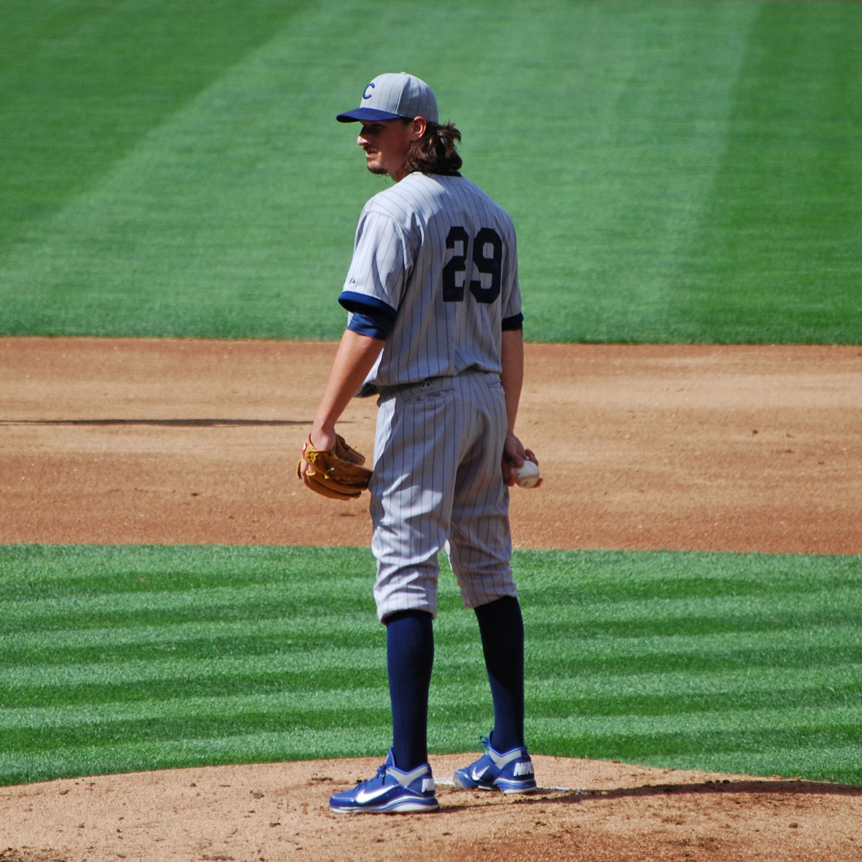 Jeff Samardzija of the Chicago Cubs pitching against the Seattle Mariners at Safeco Field in Seattle on June 29 2013. Photo taken with a Nikon D60 DSLR by Michael Holley.